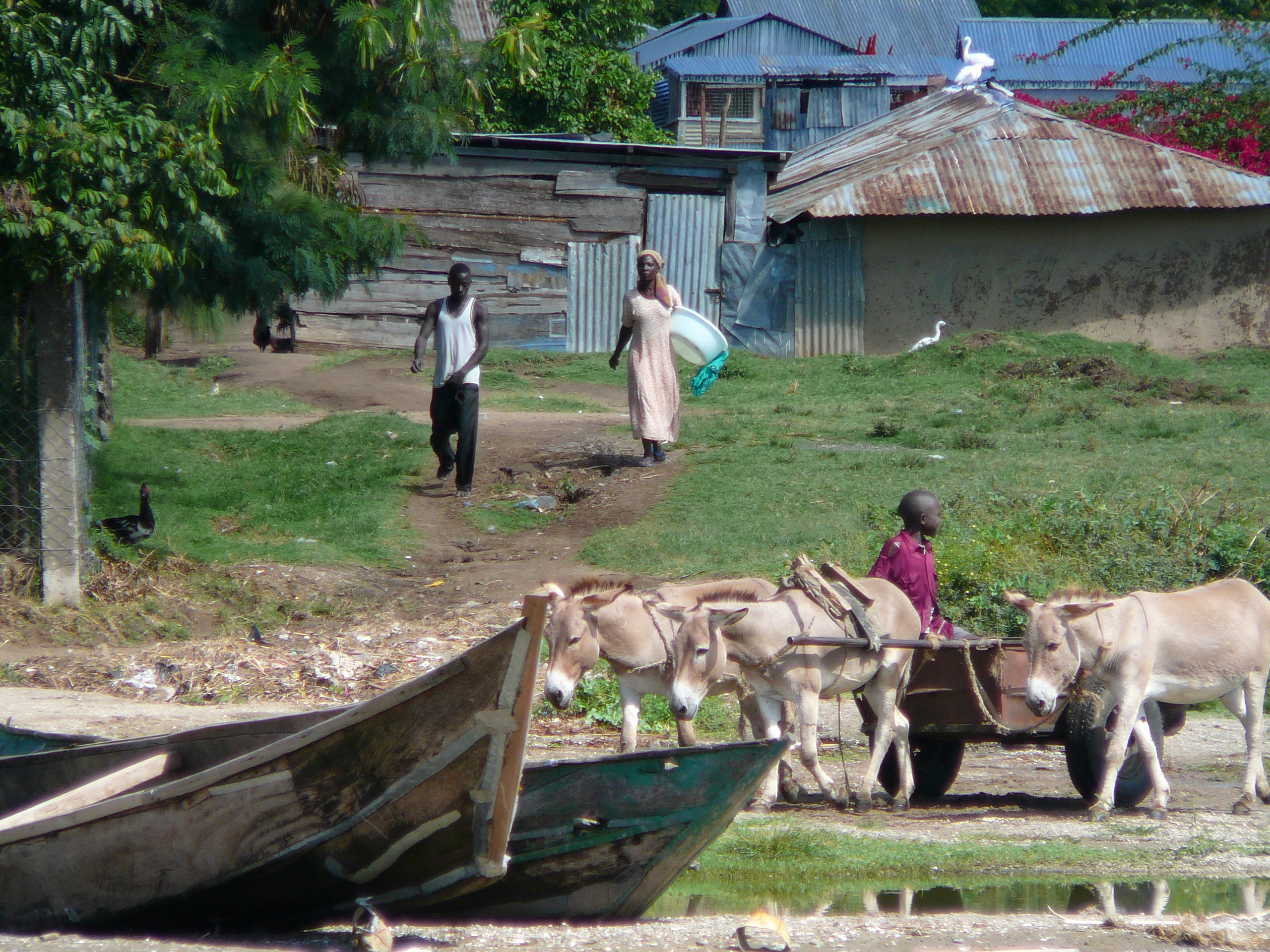 Rusinga Island, the Village - Lake Victoria, Kenya